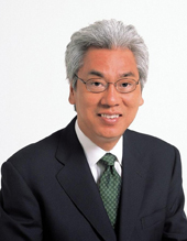 Toshio Ogawa was the Senior Vice-Minister of Justice on January, 2011. (For terms of use, see リンク、著作権等について | 首相官邸ホームページ.)